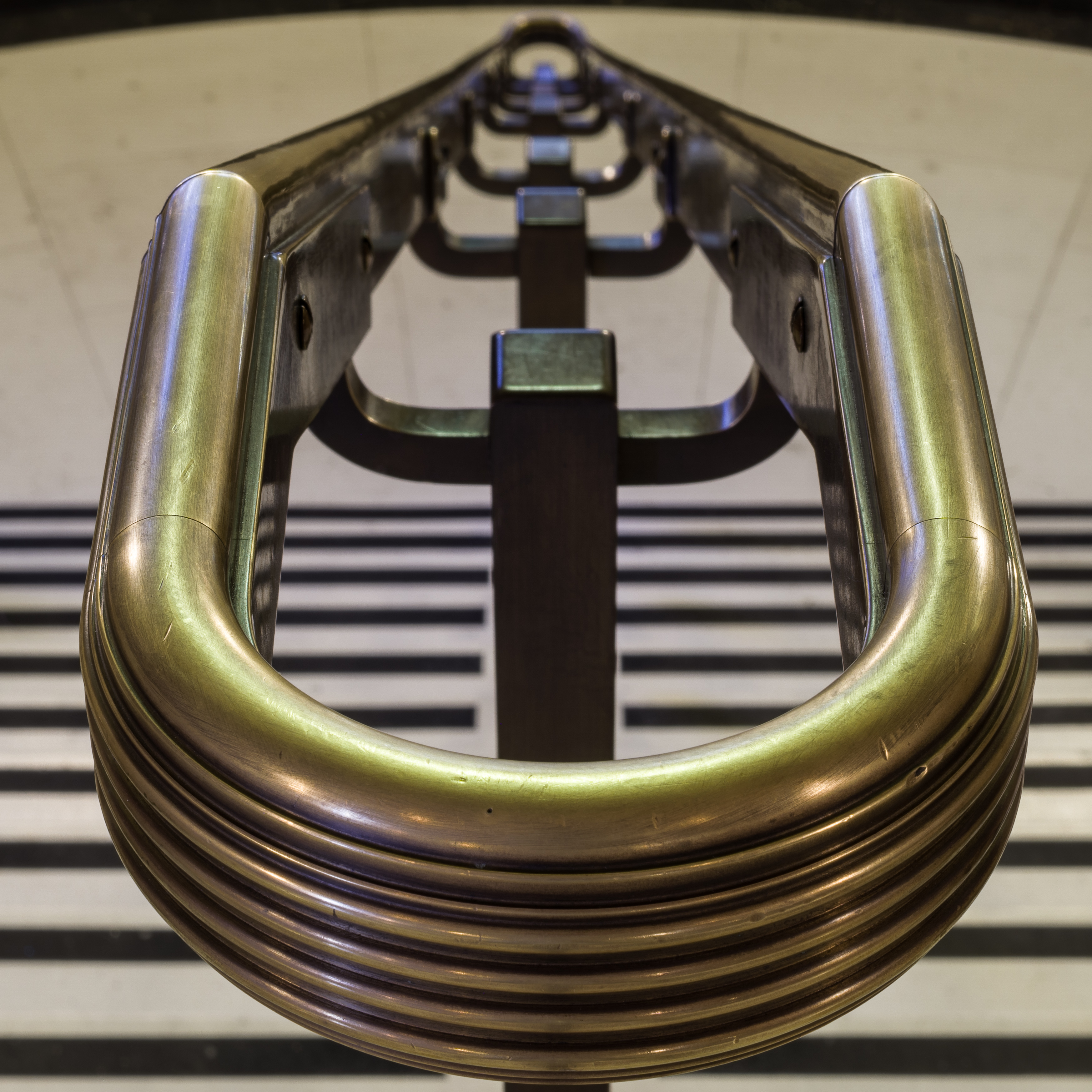 The central handrail of one of a pair of stairs either side of the first vestibule of Freemasons' Hall Wikidata has entry Q1453586 with data related to this item.